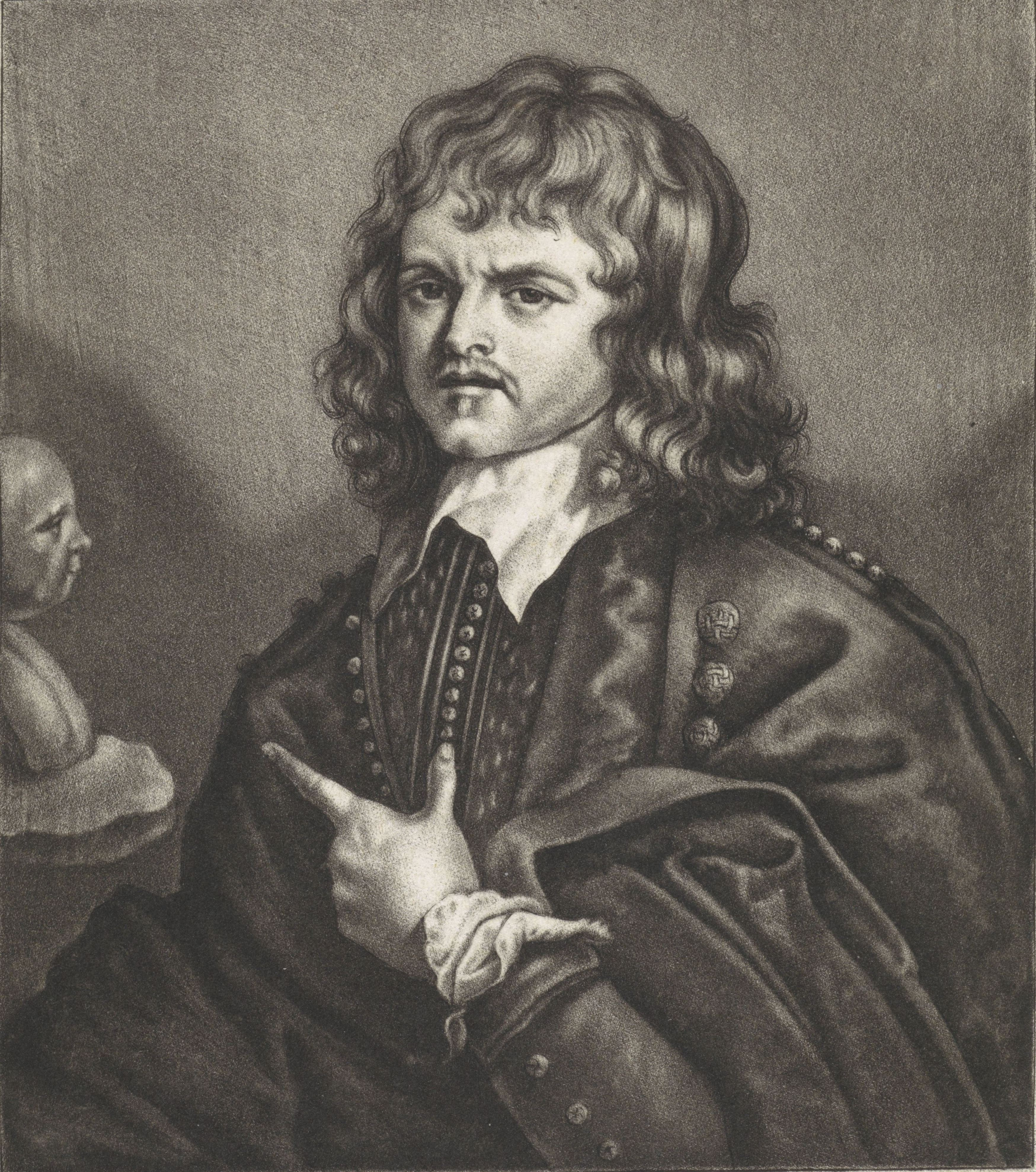 Portrait of Jerôme Duquesnoy II, by Ignatius Joseph van den Berghe (1776). Purportedly after a painting by Anthony Van Dyck. Latin caption: Hic ille est quandom Fratri vix dispar in Arte felix. infelix attamen igne perit: non periisse, abiisse scias; sua Fama celebris Arte manet: redut; nam redivivus adest [...]. hanc veram effigiem Hieronimi du Quesnoij Sculptoris egregii, ad imita- tiomem Fabulae per A Van Dyck ad vivum depictae calamo perfecit. J.J. Van den Berghe Antverpianus. Bruxellis Anno Salutis 1776.